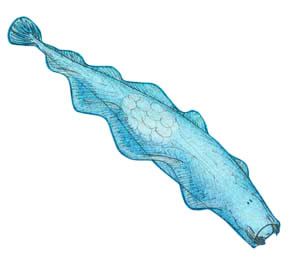 Reconstruction of the primitive arrow worm, Eognathacantha ercainella, from late Early Cambrian China